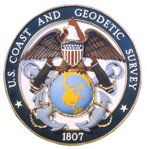 Authorized emblem for the U.S. Coast and Geodetic Survey, a federal agency now represented by NOAA's Office of Coast Survey and NOAA's National Geodetic Survey. Coast Survey